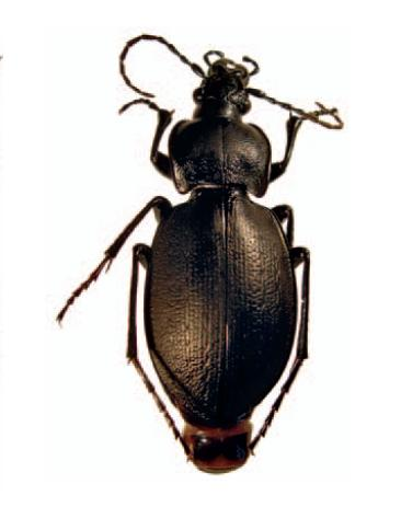 Carabus phoenix